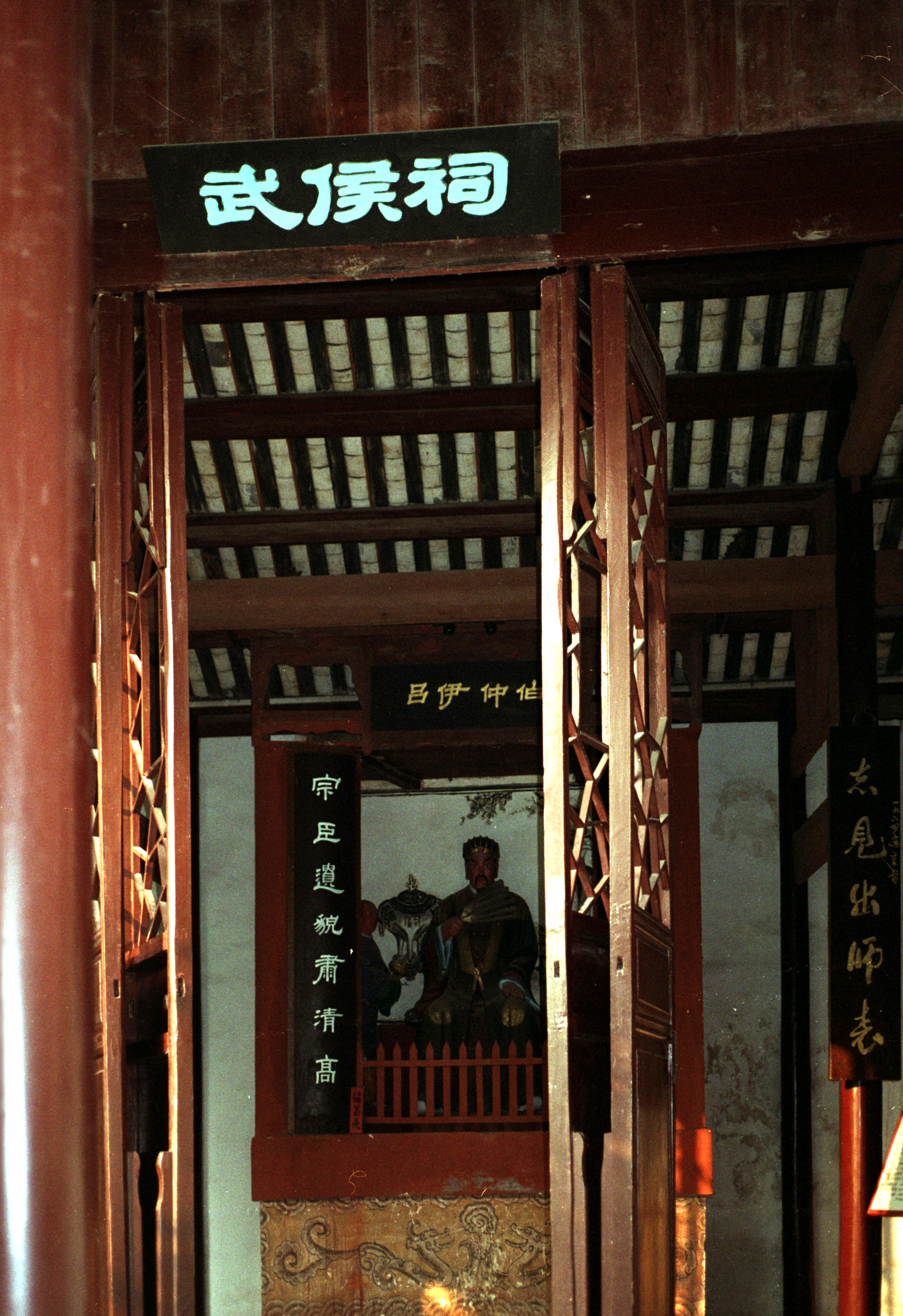 白帝城武侯祠 Zhuge Liang temple in the Baidi city